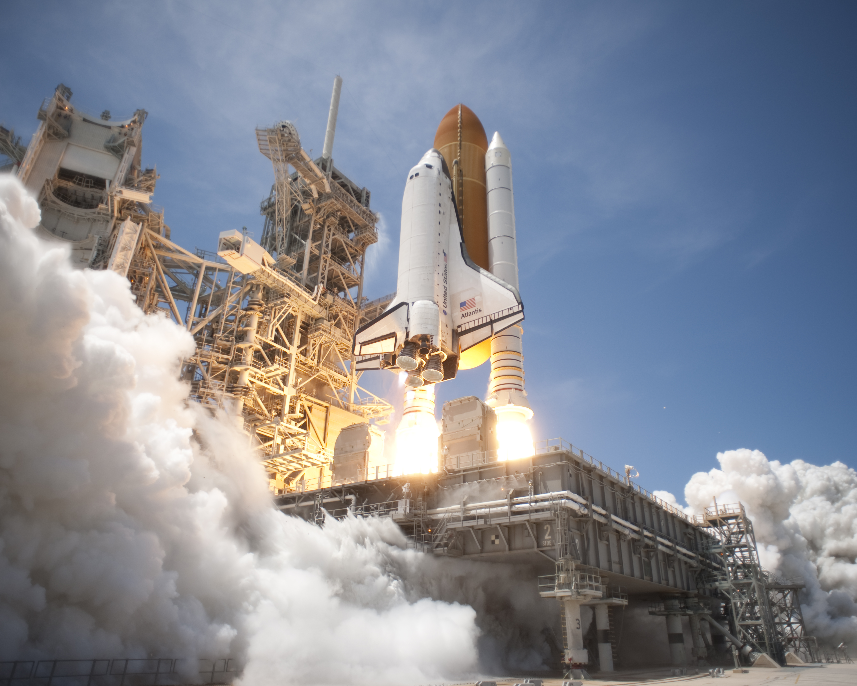 An exhaust plume surrounds the mobile launcher platform on Launch Pad 39A , Kennedy Space Center, Fla., as space shuttle Atlantis lifts off on the STS-132 mission on May 14. STS-132 is the 132nd shuttle flight, the 32nd for Atlantis and the 34th shuttle mission dedicated to International Space Station assembly and maintenance. (NASA)